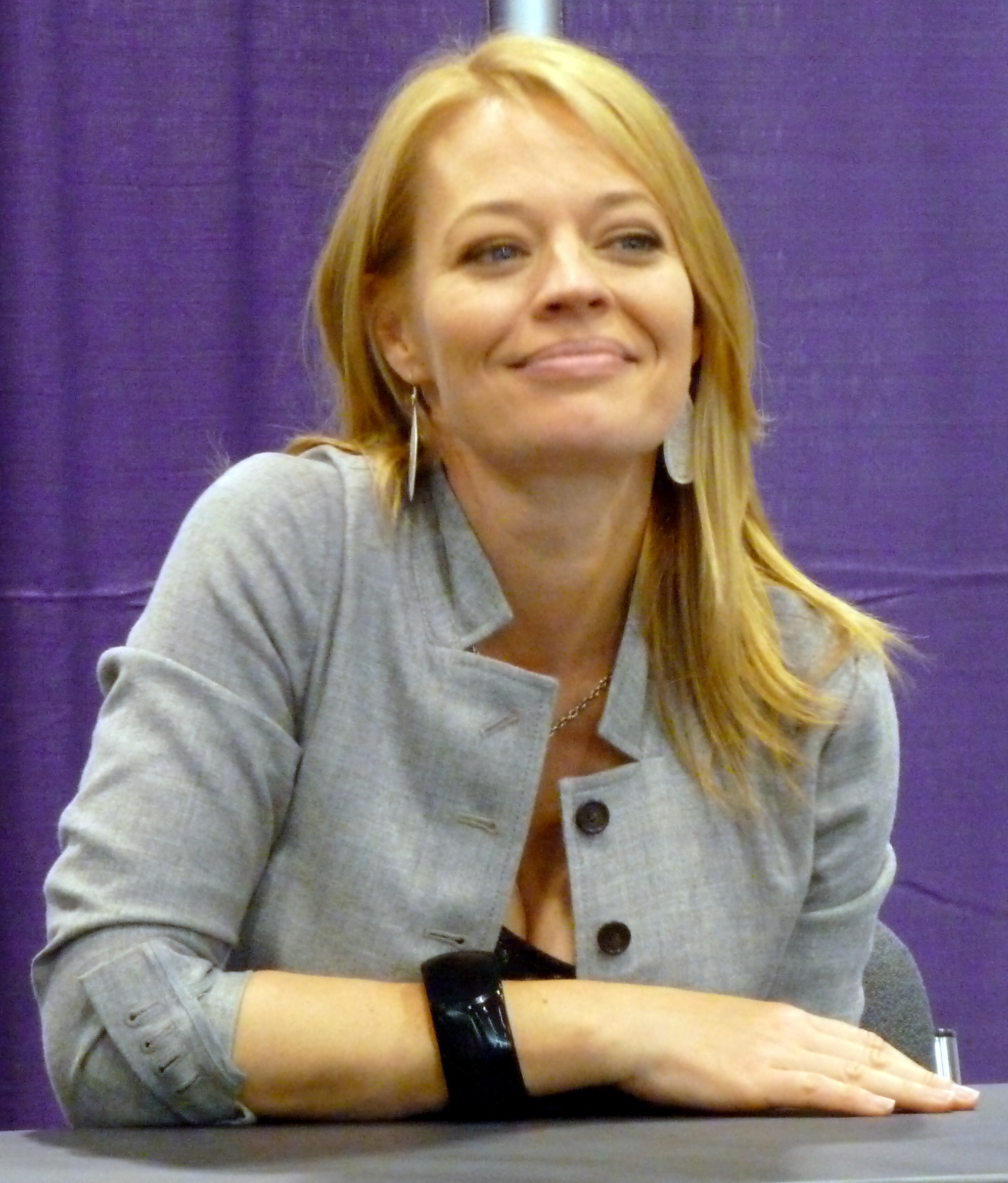 Jeri Ryan at the Wizard World Toronto 2012.